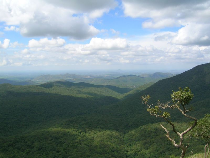 Mudumalai forest in Tamil Nadu, India